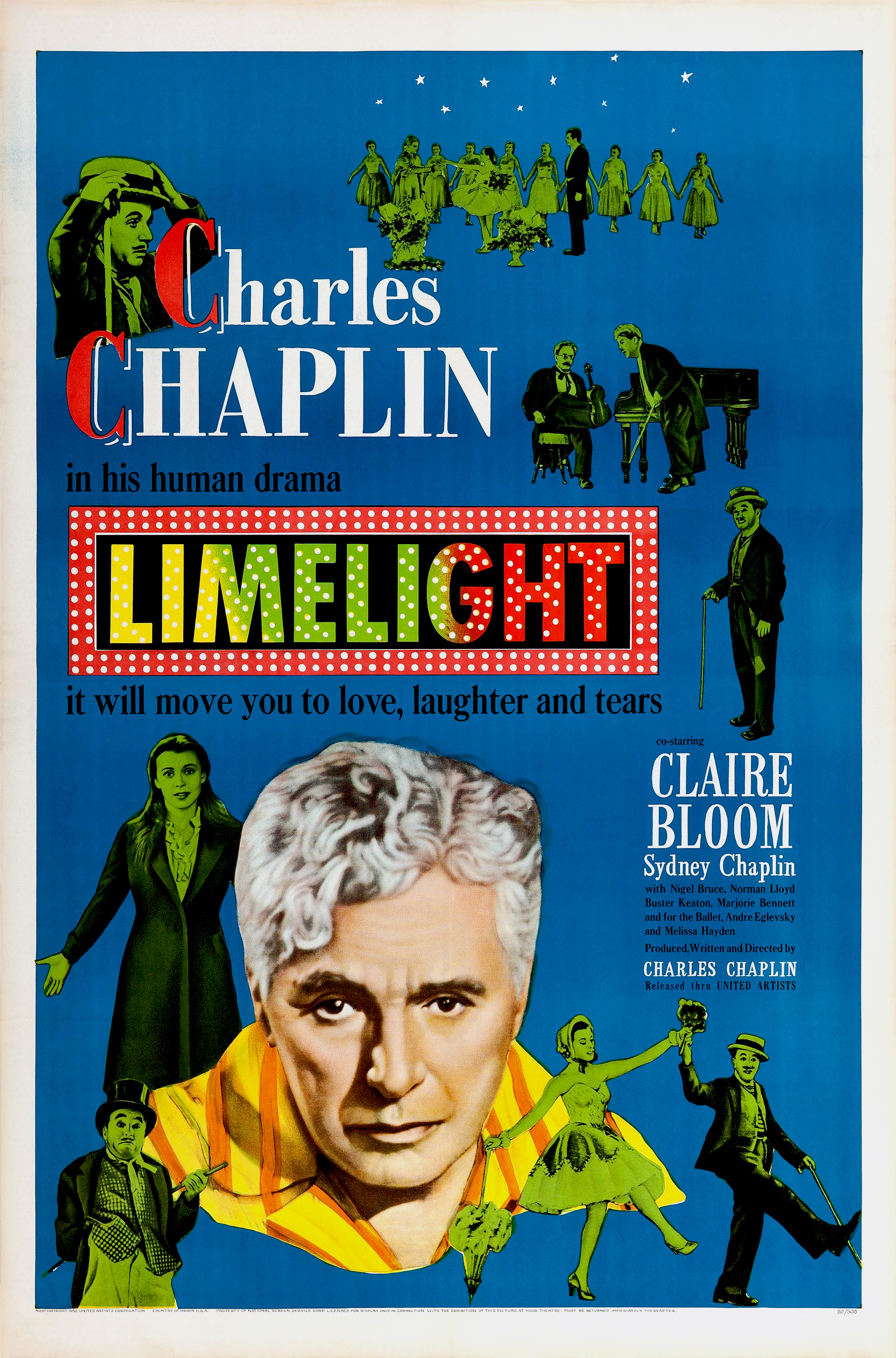 Poster for the original, limited American theatrical release of Charlie Chaplin's 1952 film Limelight.